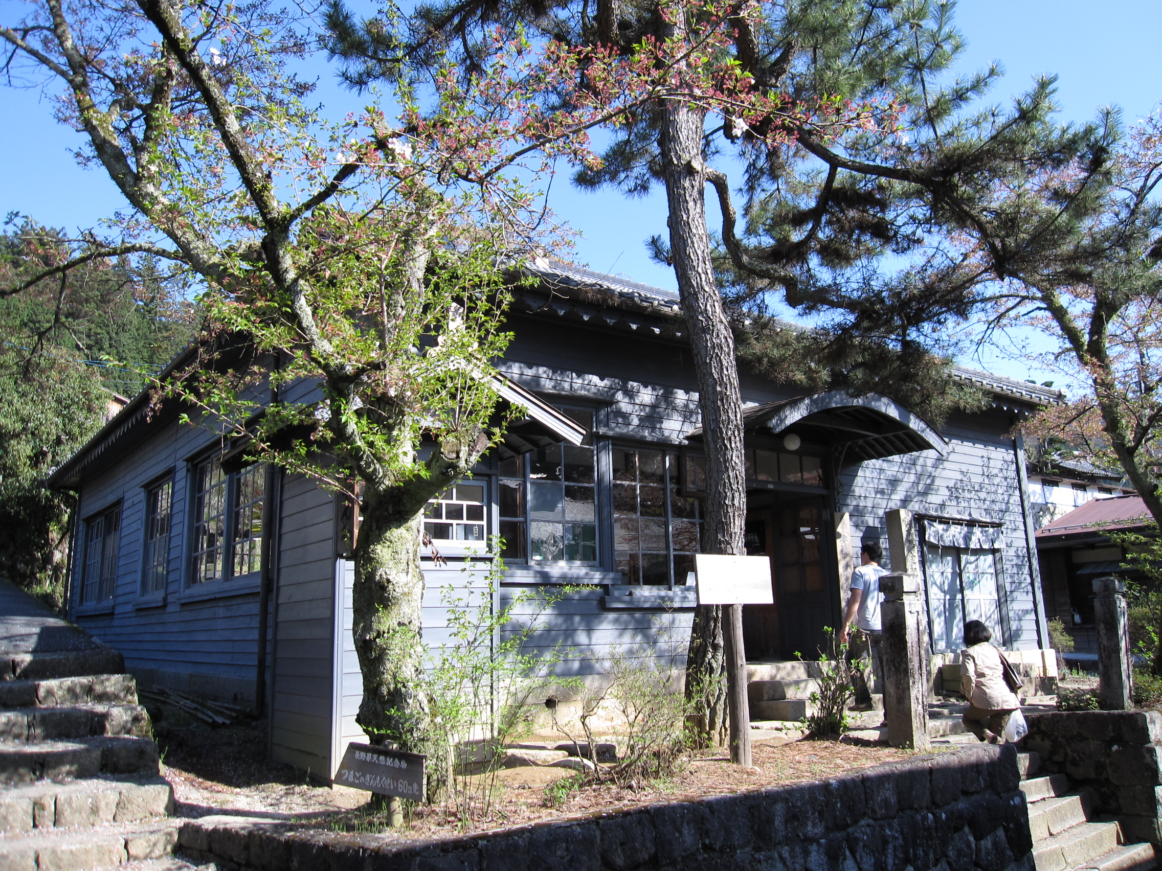 Tsumago-juku (妻籠宿) in Nagano Prefecture, central Japan, in Spring of 2009 with cherry blosoms.